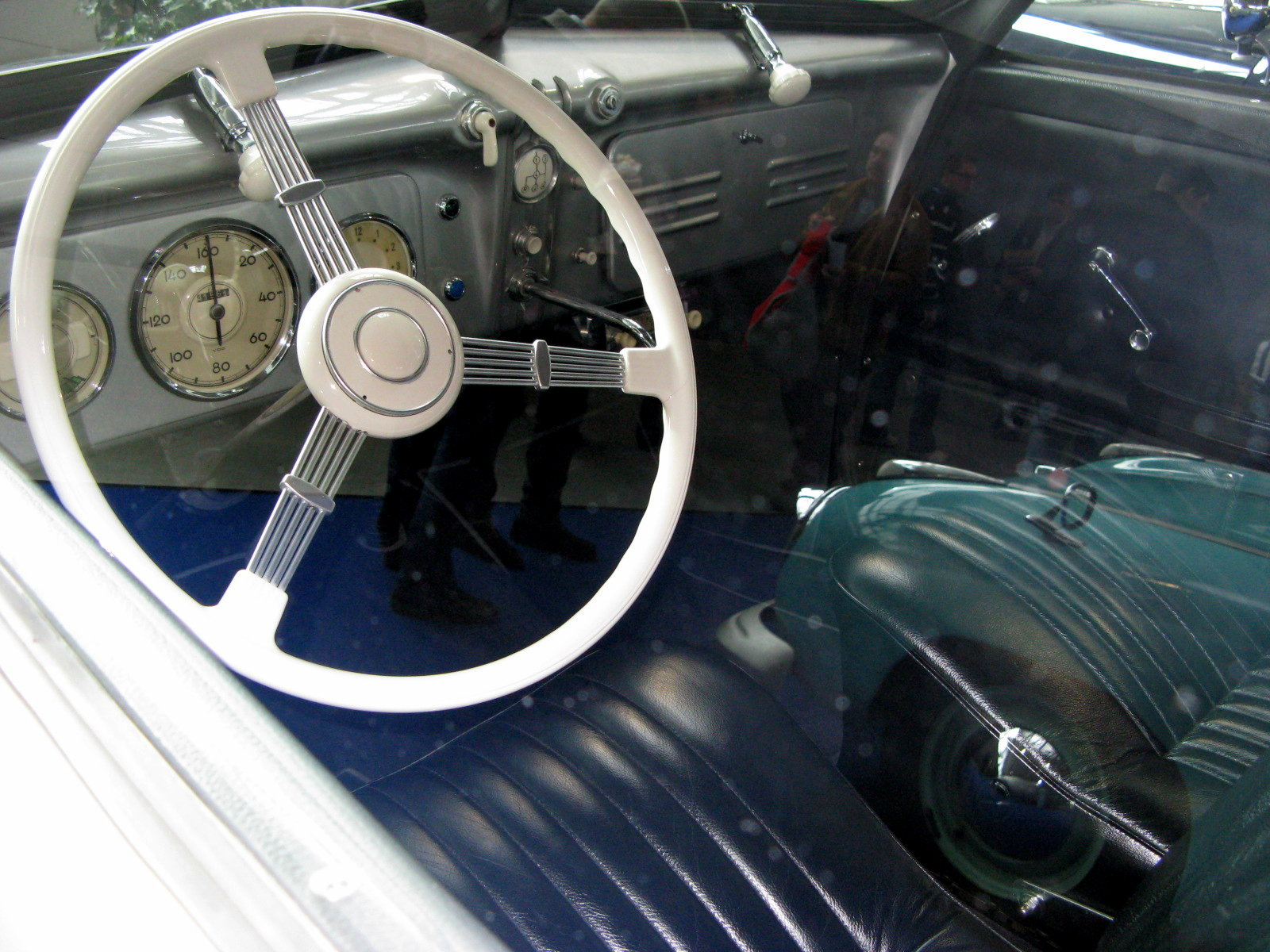 Dashboard of an Adler Autobahn